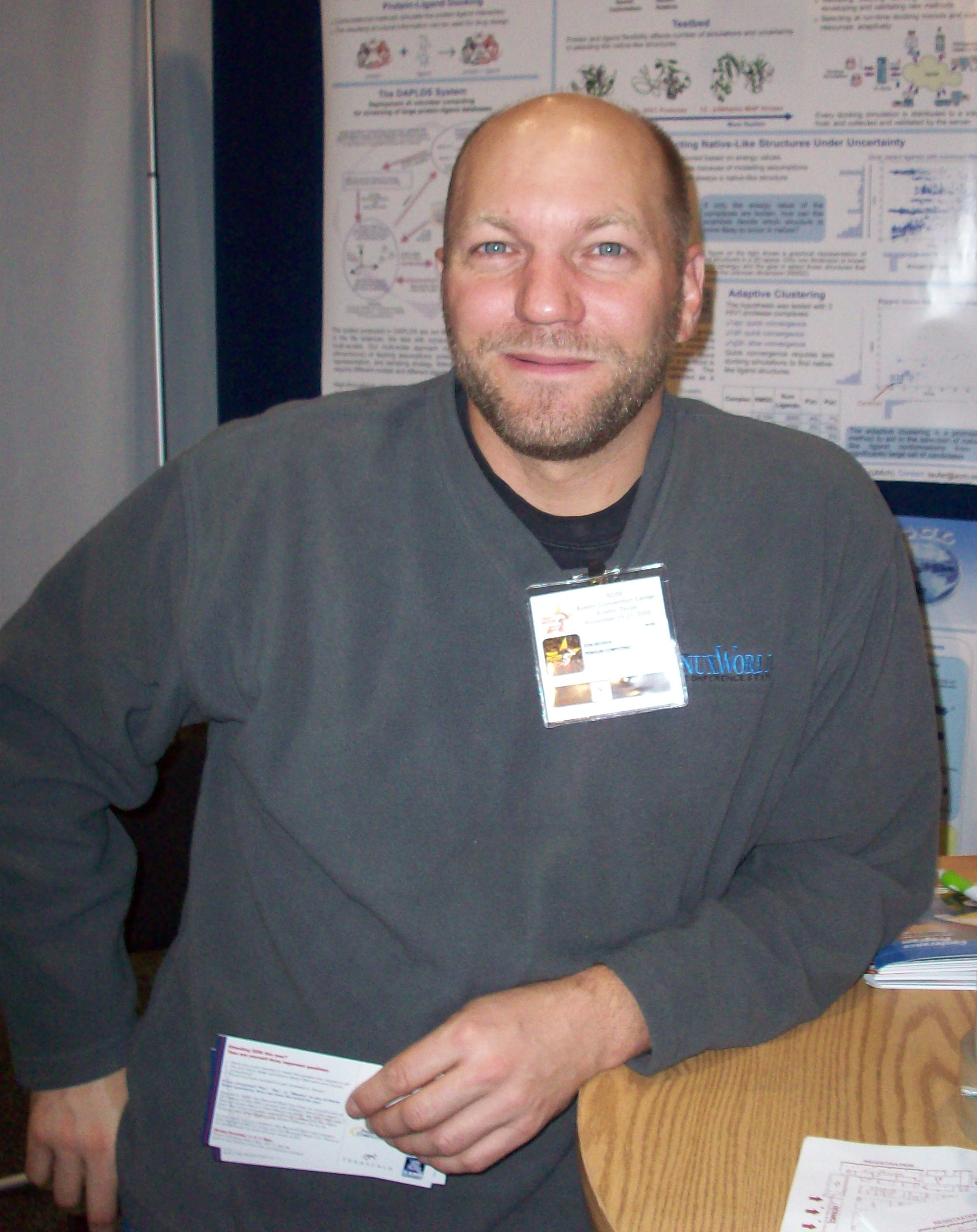 Picture of Donald Becker. Taken at Supercomputing 2008